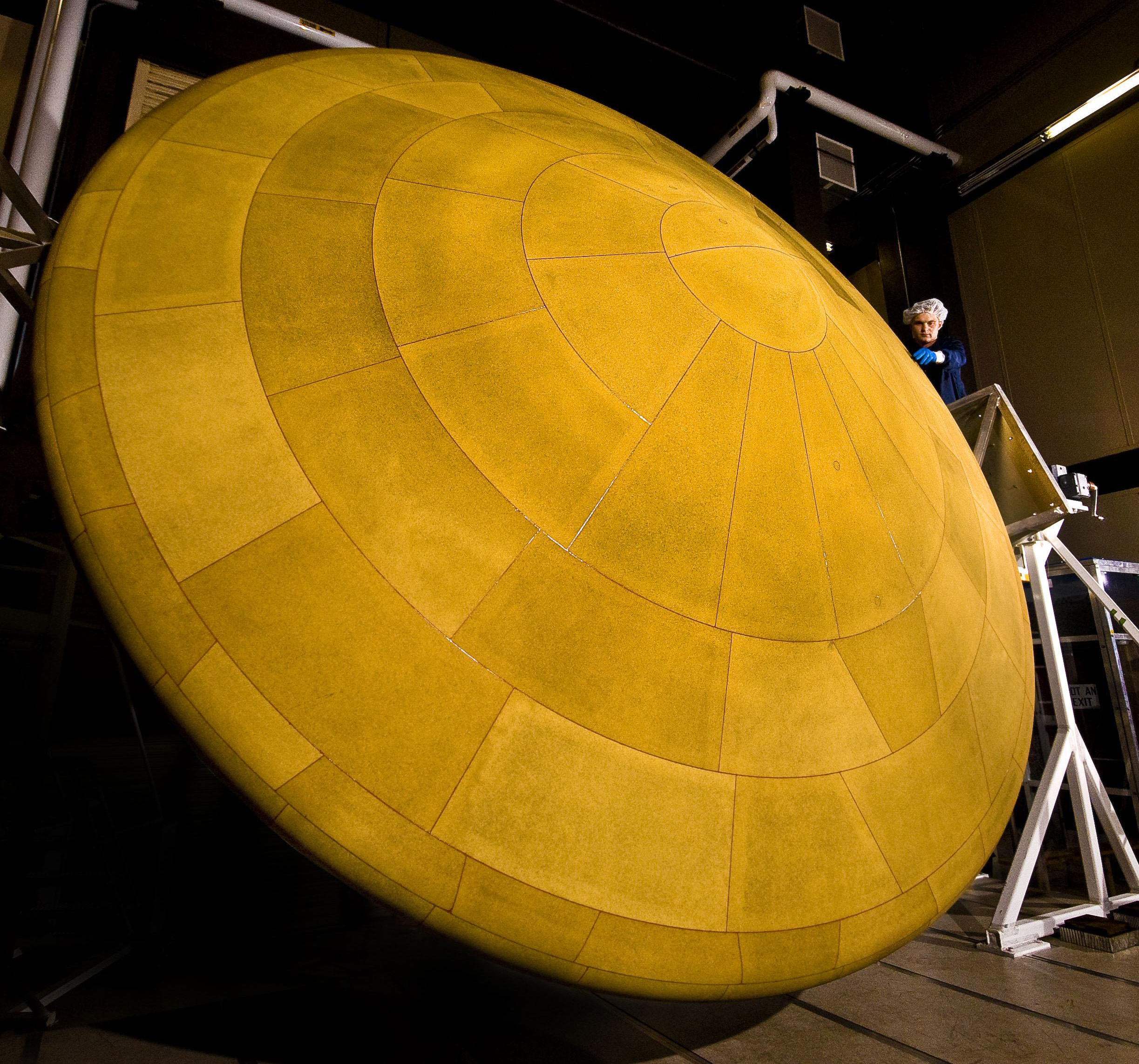 The finished heat shield for NASA's Mars Science Laboratory, with a diameter of 4.5 meters (14 feet, 9 inches), is the largest ever built for descending through the atmosphere of any planet. This image shows the heat shield and a spacecraft worker at Lockheed Martin Space Systems, Denver, which built and tested the heat shield. The heat shield and the spacecraft's backshell together form an encapsulating aeroshell that will protect the mission's rover, Curiosity, from the intense heat and friction that will be generated as the flight system descends through the Martian atmosphere. The aeroshell has a steering capability produced by ejecting ballast that offsets the center of mass prior to entry into the atmosphere. This offset creates lift as it interacts with the thin Martian atmosphere and allows roll control and autonomous steering through the use of thrusters.